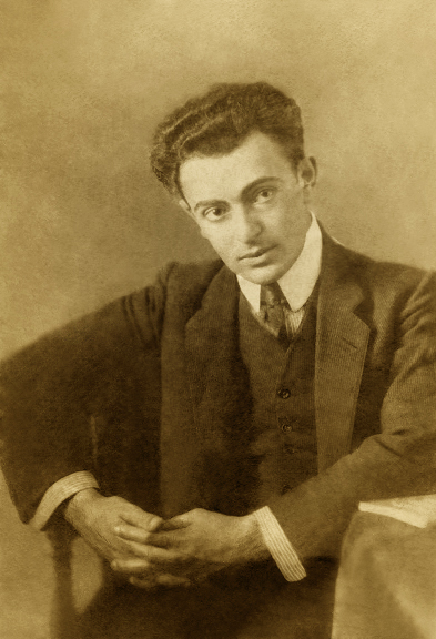 Restored version of the original scanned photo